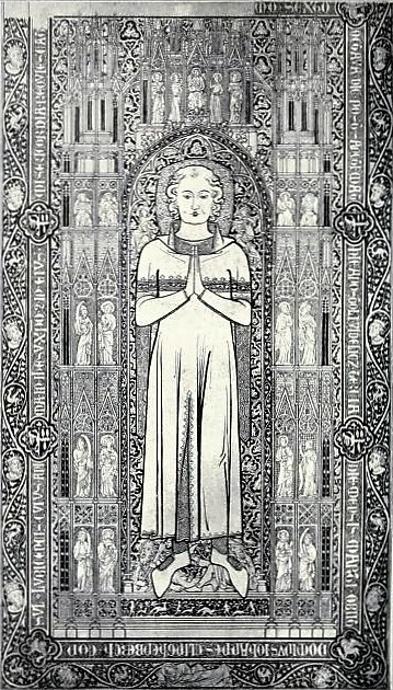 Monumental brass of Johann Klingenberg in St. Petri, Lübeck (destroyed 1942, except for some small pieces now in the collection of the Hansemuseum), drawing by Carl Julius Milde 1853, Corpus: LÜMU5